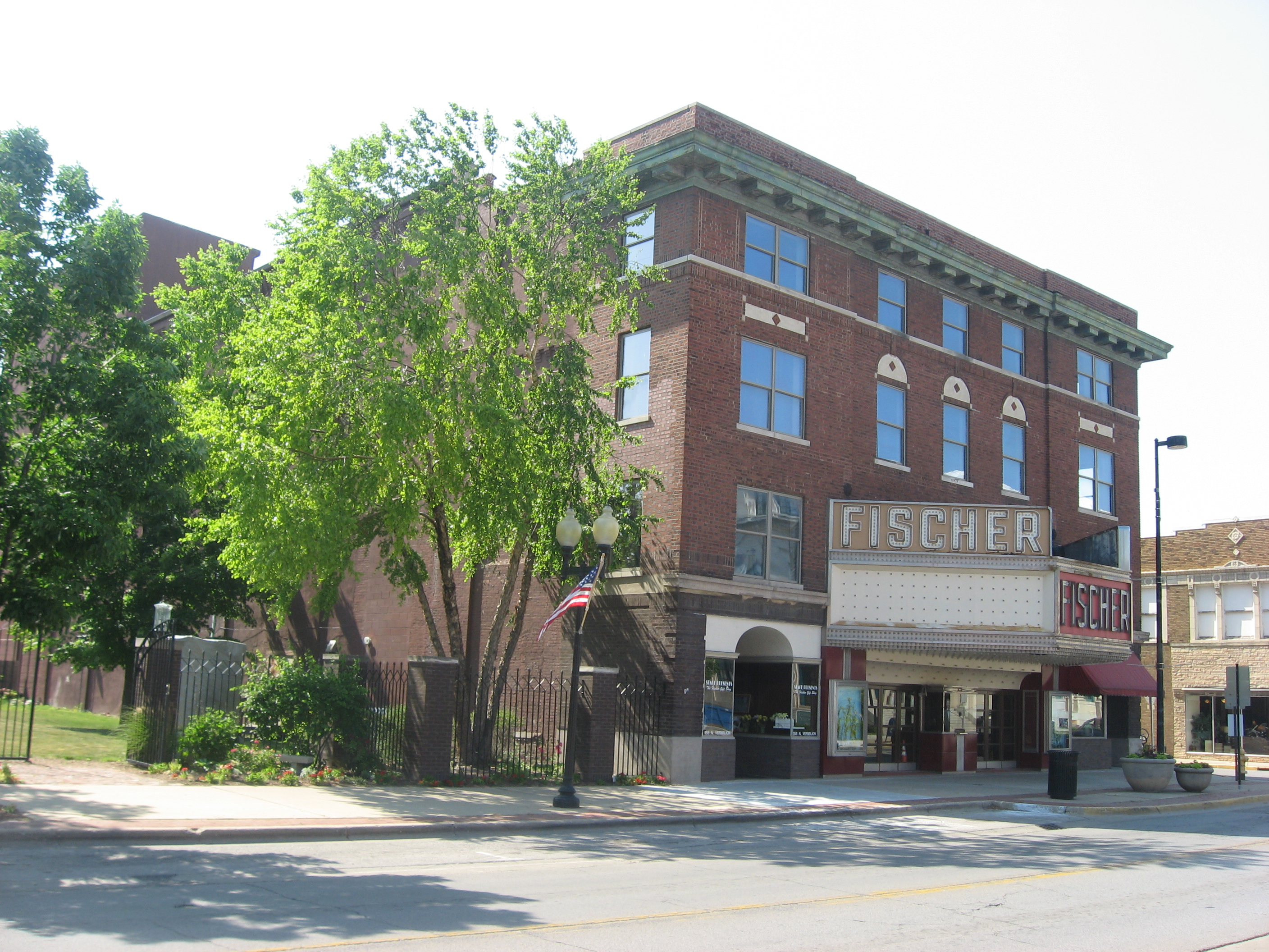 Front and southern side of the Fischer Theatre, located at 158-164 N. Vermilion Street in Danville, Illinois, United States. Built in 1913, it is listed on the National Register of Historic Places.